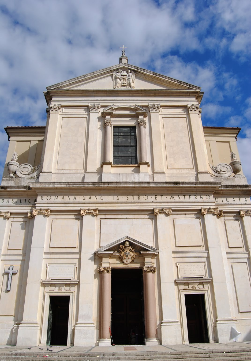 desio basilica san siro e materno